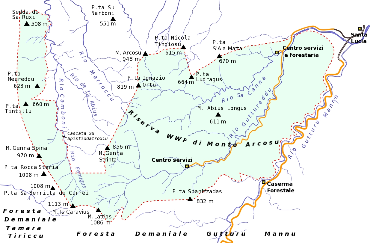 Map of WWF Oasis of Monte Arcosu (Sardinia, Italy)